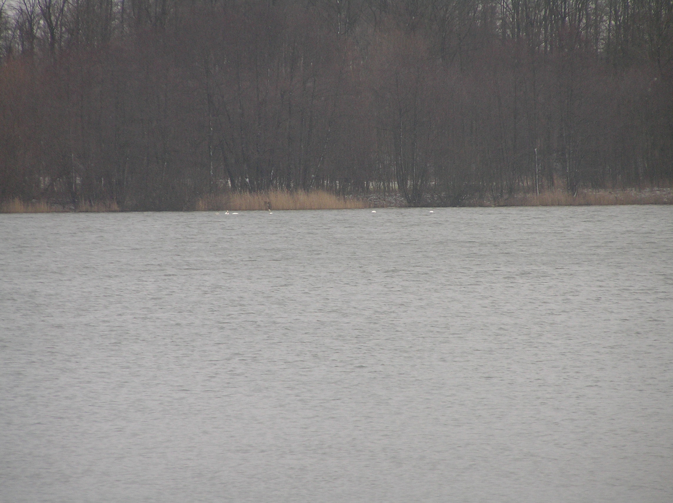 Šváb is the pond near the village České Heřmanice, Pardubice Region, Czech Republic